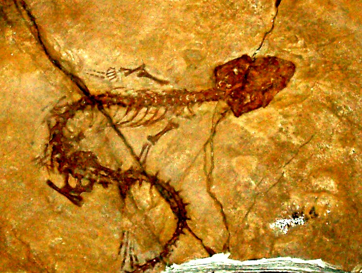 Fossil of Derasmosaurus pietraroiae, an extinct rhynchocephalian